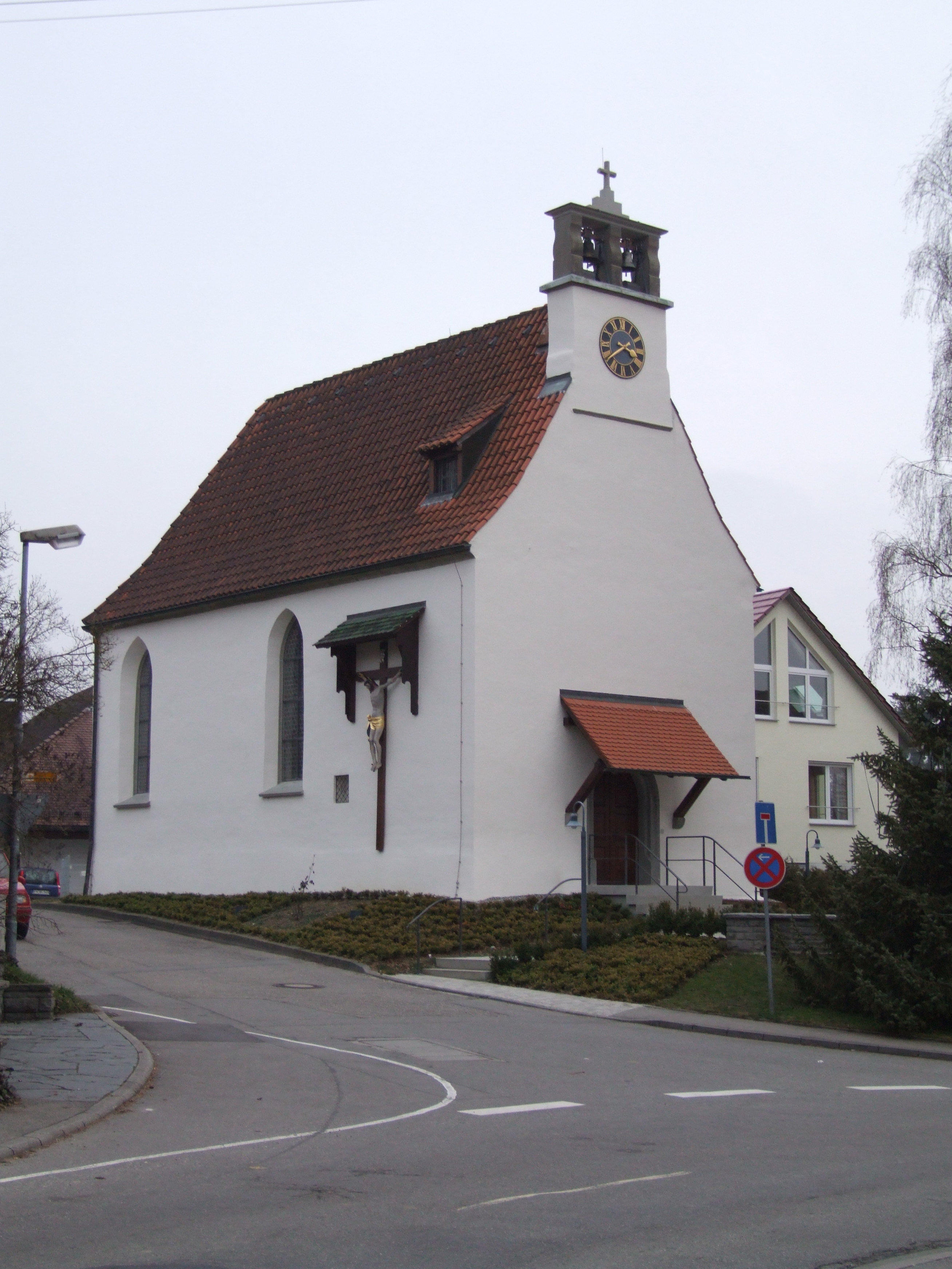 Chapel in Nußdorf (Überlingen)